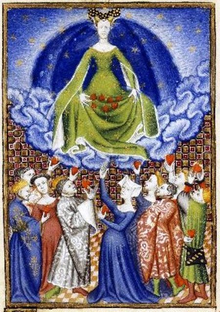 Venus, seated on a rainbow, with her devotees who offer their hearts to her; from Christine de Pizan’s Book of the Queen [1]